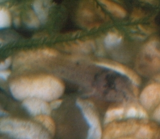 Author: User:Calilasseia Photograph of 2nd generation fry from own breeding stock, taken July 2003. Original image on print from 35mm negative.